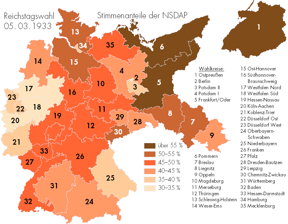 NSDAP election results of 1933 in Germany's constituencies